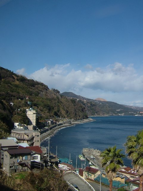 View of Hokkawa hot spring resort area in Higashiizu, Shizuoka Prefecture, Japan.